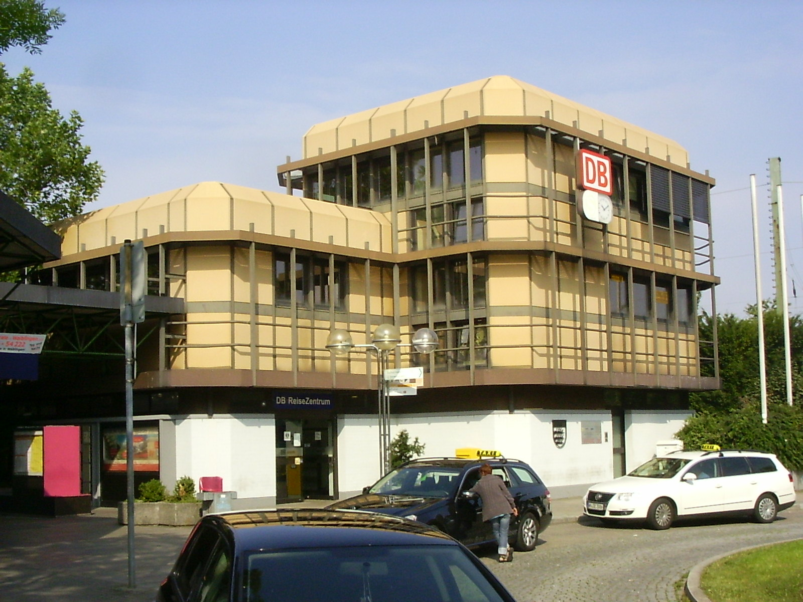 Waiblingen train station, streetside